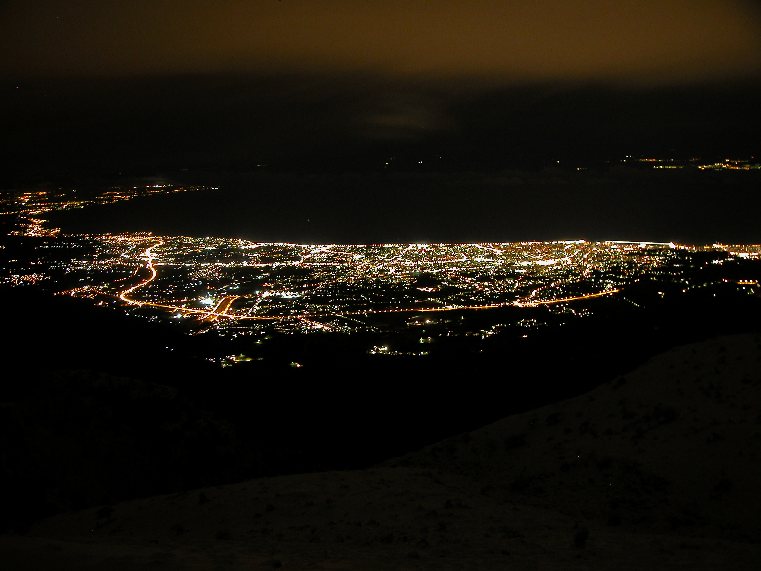 Patras at night